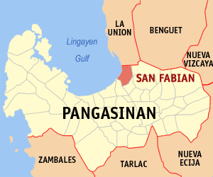 Map of Pangasinan showing the location of San Fabian